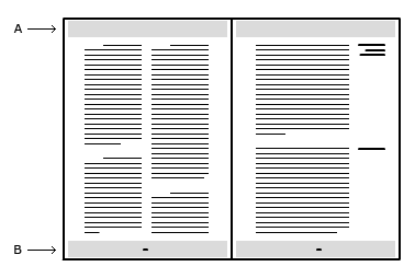 A = Header, B = Footer.